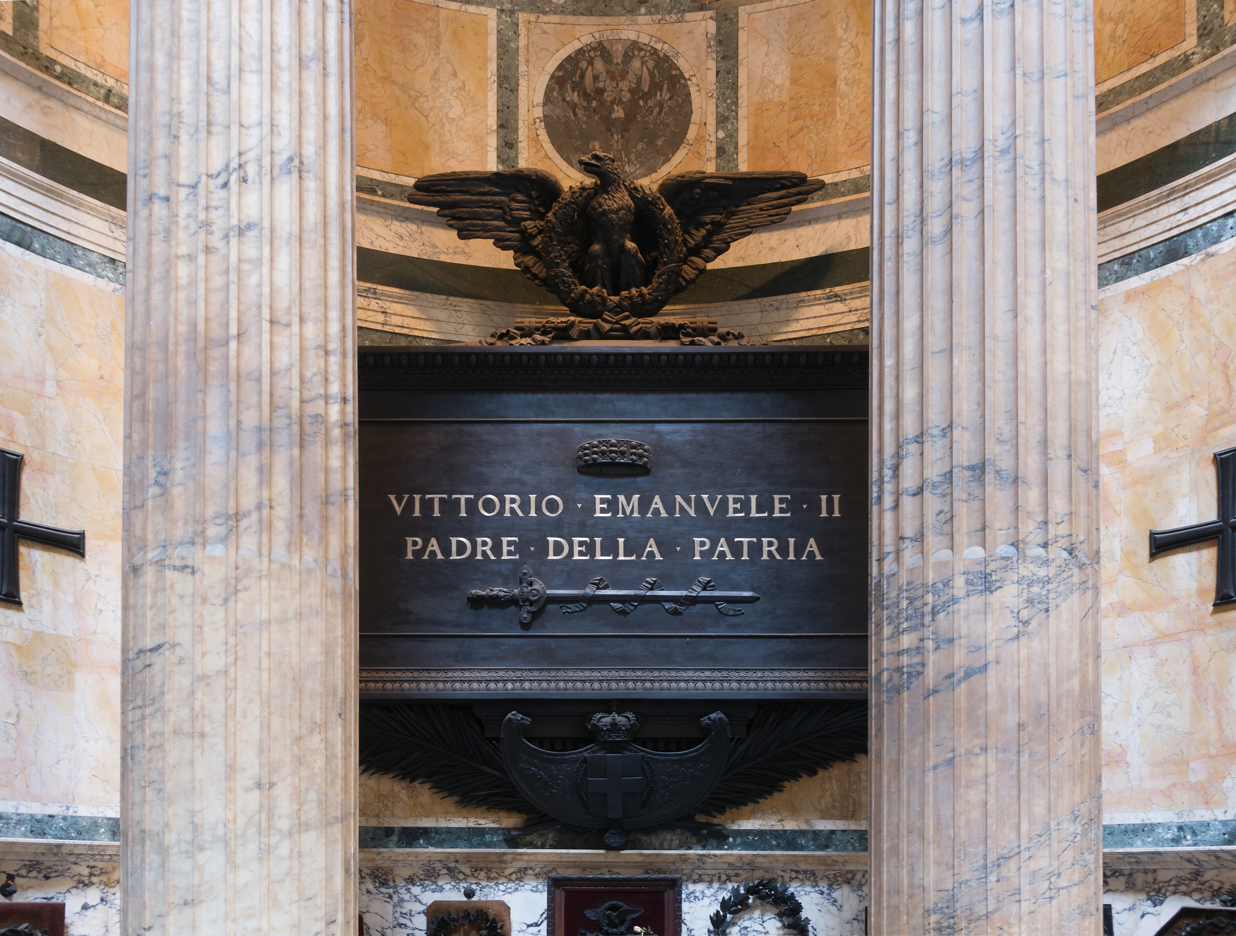 The tomb of Victor-Emmanuel II, king of Italy. Pantheon, Rome, Italy.